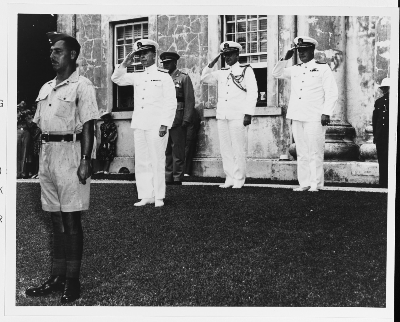 Three U.S. Navy flag officers salute during a ceremony at the time of a visit to Bermuda by Admiral Royal Eason Ingersoll, Commander-in-Chief, U.S. Atlantic Fleet, 22 September 1944. The admirals are (l-r): Admiral Ingersoll, Rear Admiral Walter K. Kilpatrick, Rear Admiral Ingram C. Sowell.